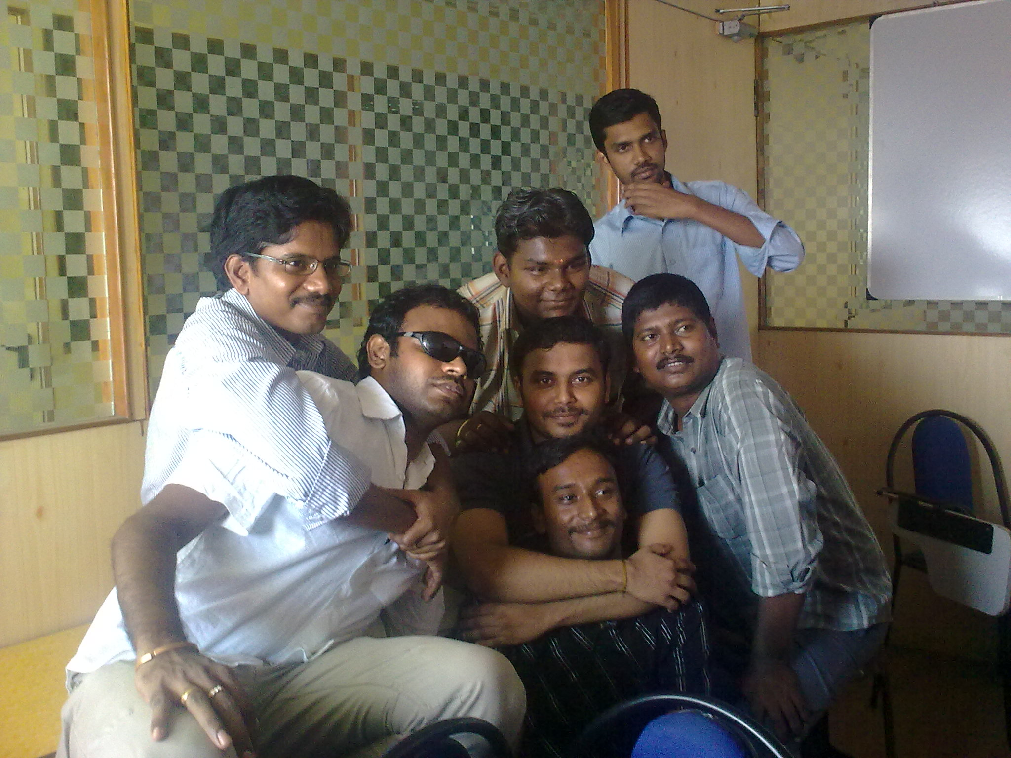 One of the happy time I shared with my colleagues at Chennai office, 2009